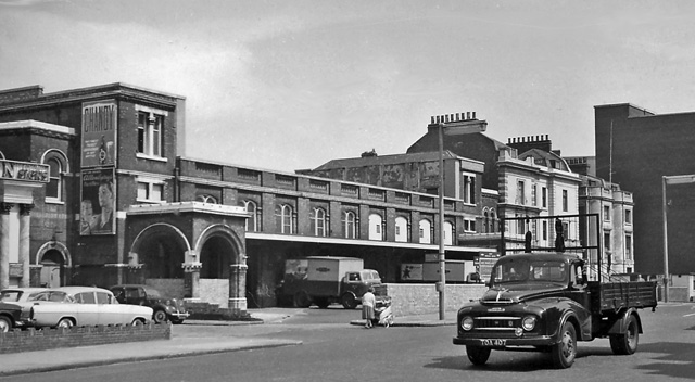 Bow Station (North London Line) (remains of entrance). View of station entrance on north side of Bow Road; ex-NLR (Broad St. etc.) - Dalston Junction - Victoria Park - Poplar line. This station was closed to passengers on 15/5/44, when the Dalston Jct. - Poplar service was substituted by buses (calling at all stations) until 23/4/45. Goods traffic continued on the line, but gradually declined and the line was disused by the 1980s. The route was taken over here by the entirely new Docklands Light Railway (Poplar - Stratford branch) and a new station (Bow Church) opened here on 31/8/87, on the opposite side of Bow Road. This site is hardly recognisable nearly 50 years later.